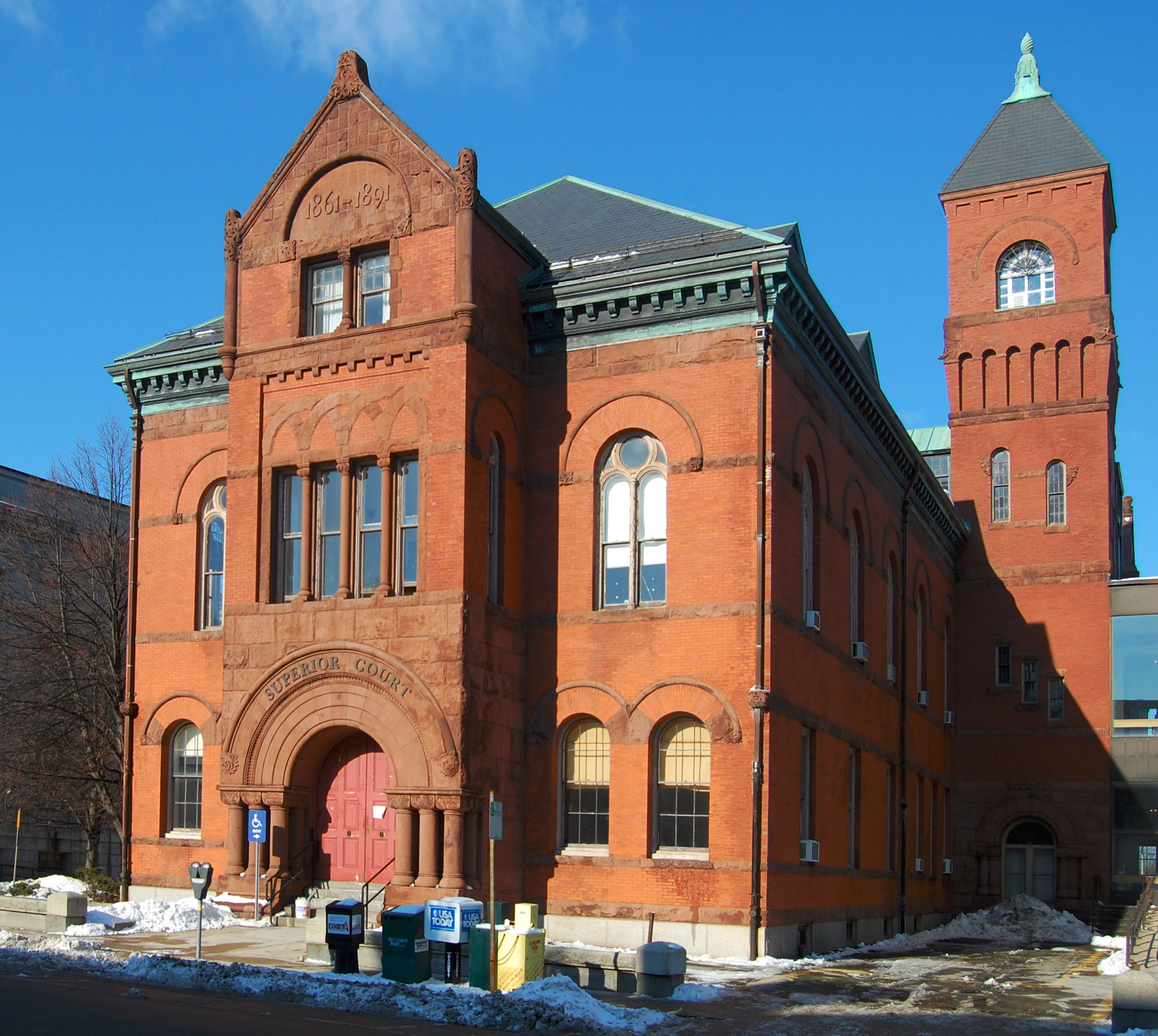 Salem Superior Court, originally an Italianate structure constructed in 1862, remodeled 1887-1889 in the style known as Richardsonian Romanesque. (Source: Historic Salem Inc.) To its right is an extension attaching it to the Old Granite Courthouse.